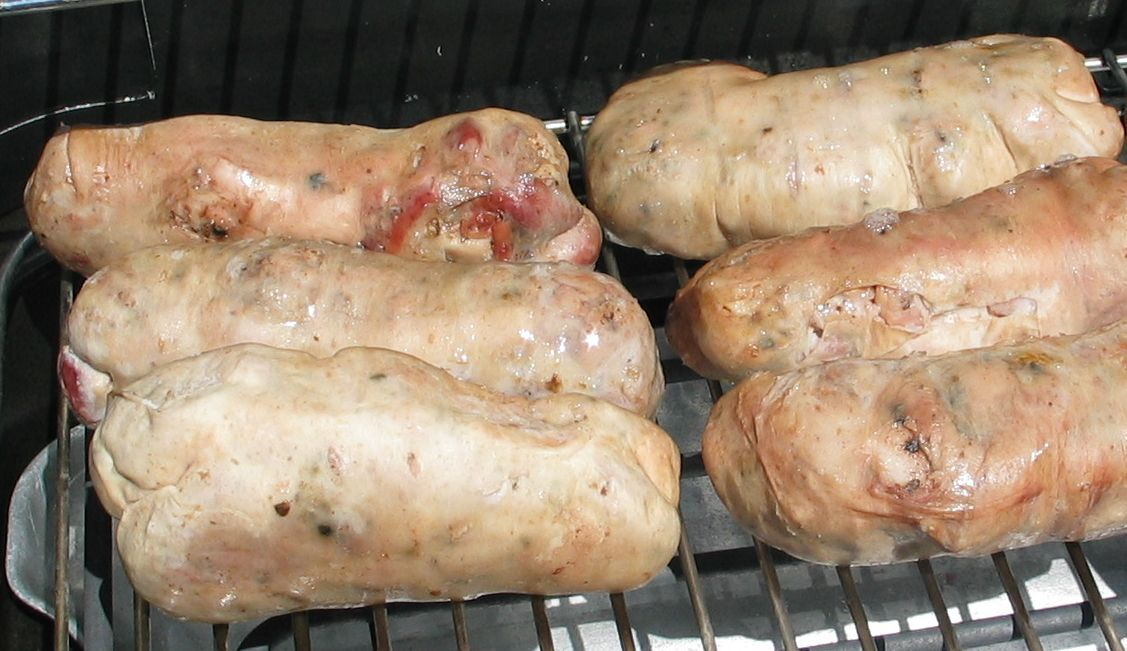 French andouillette from Troyes.